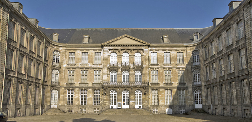 The principal facade on the entrance courtyard of the Abbaye of St. Vaast at Arras